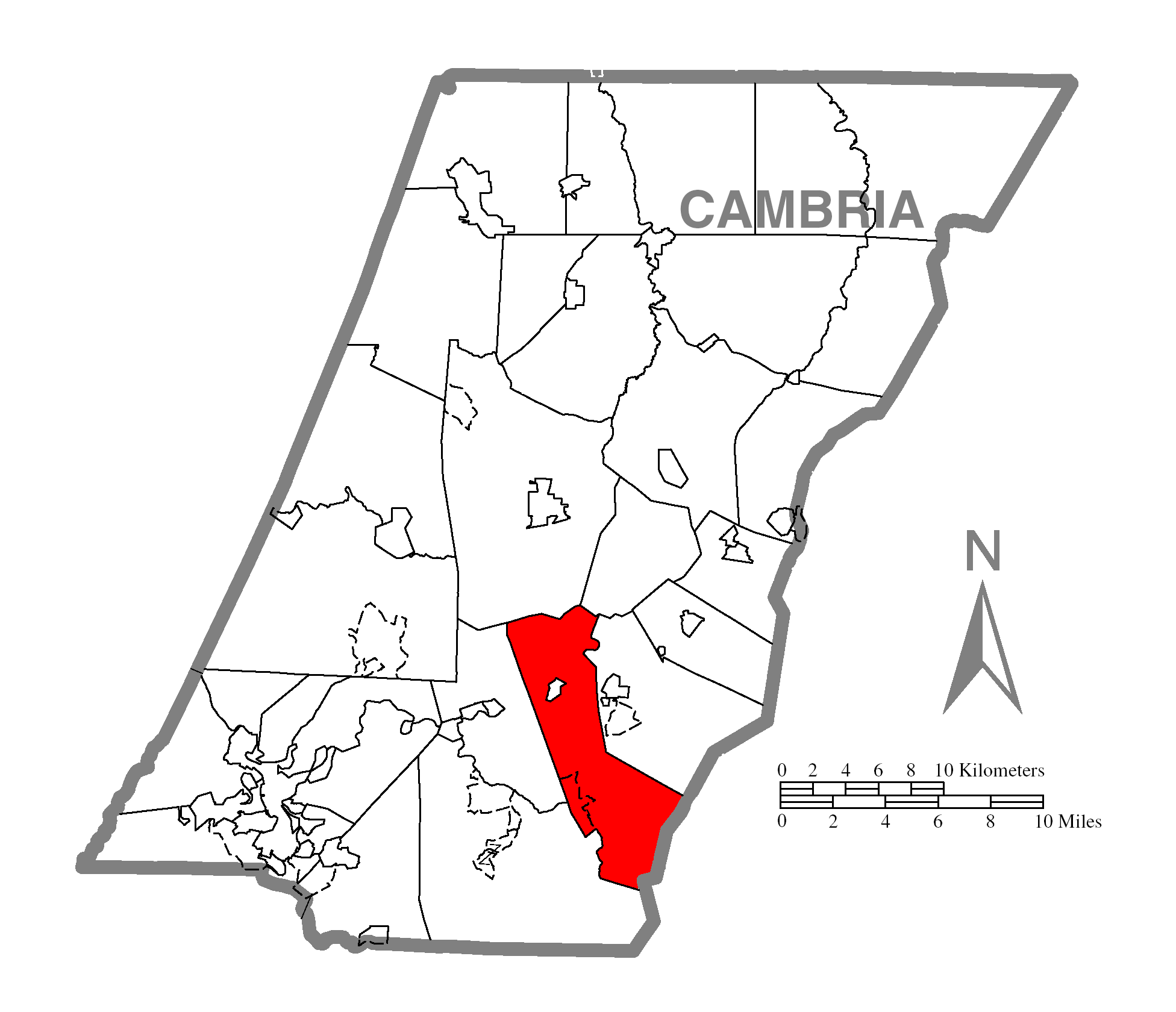 A map of Cambria County showing Summerhill Township, Pennsylvania (alternate) highlighted on the map.